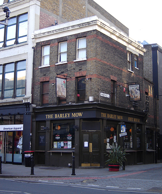 Barley Mow pub, Rivington Street, Shoreditch, Hackney. 28 January 2006. Photographer: Fin Fahey